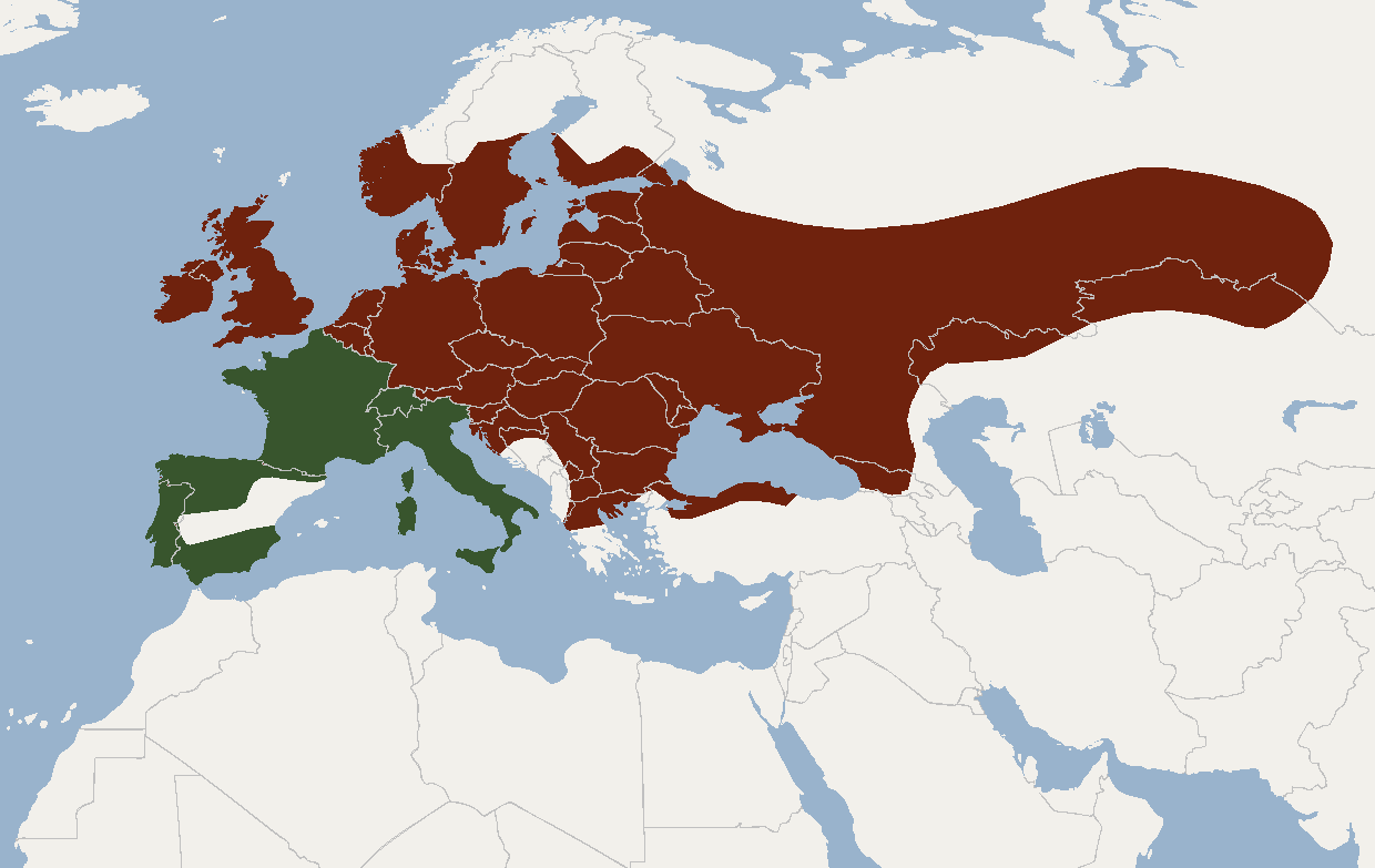 According to Aulagnier & Al., 2011. subspecific range: M.d.daubentonii in brown, M.d.nathalinae in green.